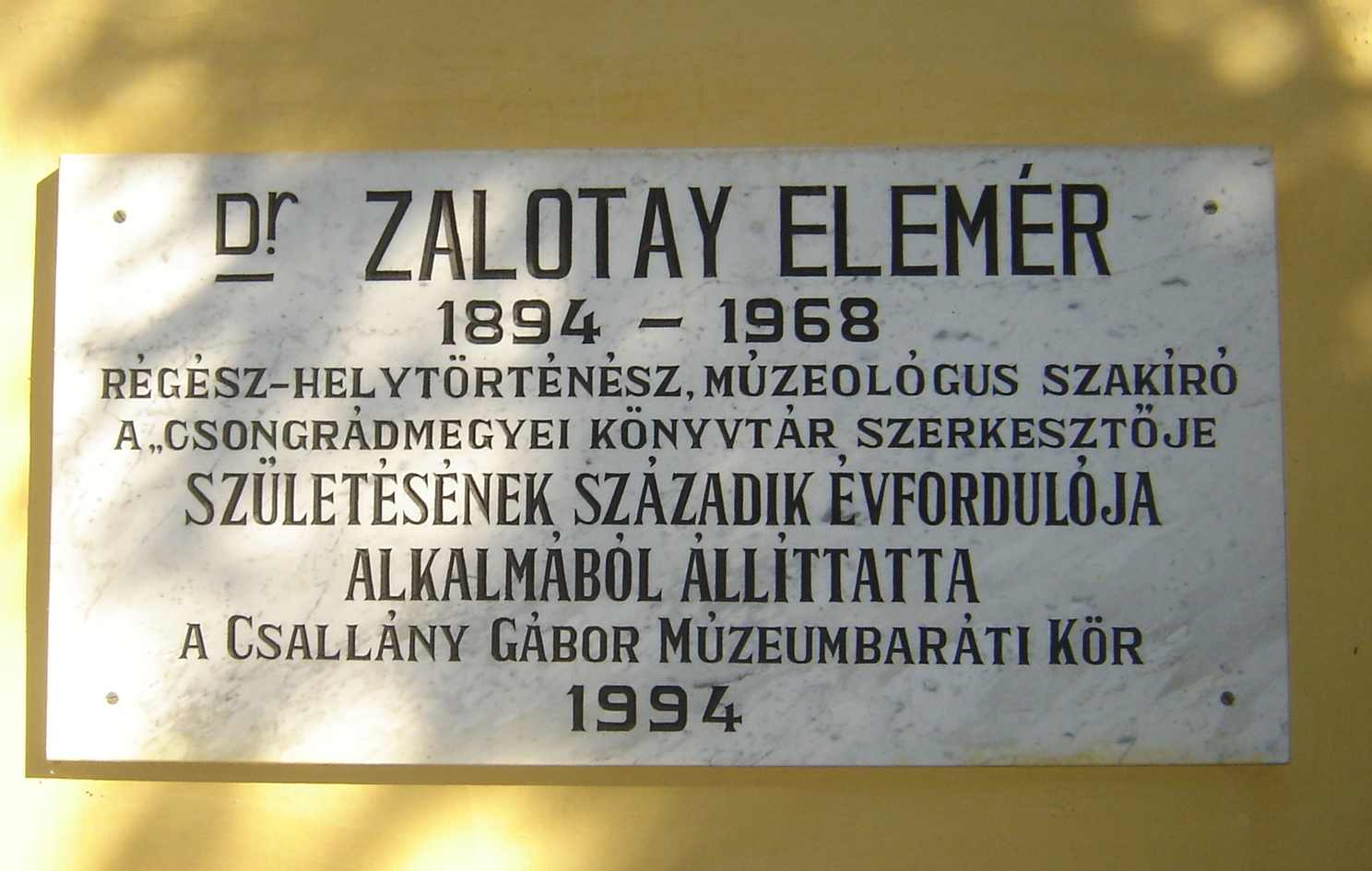 Elemér Zalotay commemorative plaque in Szentes.